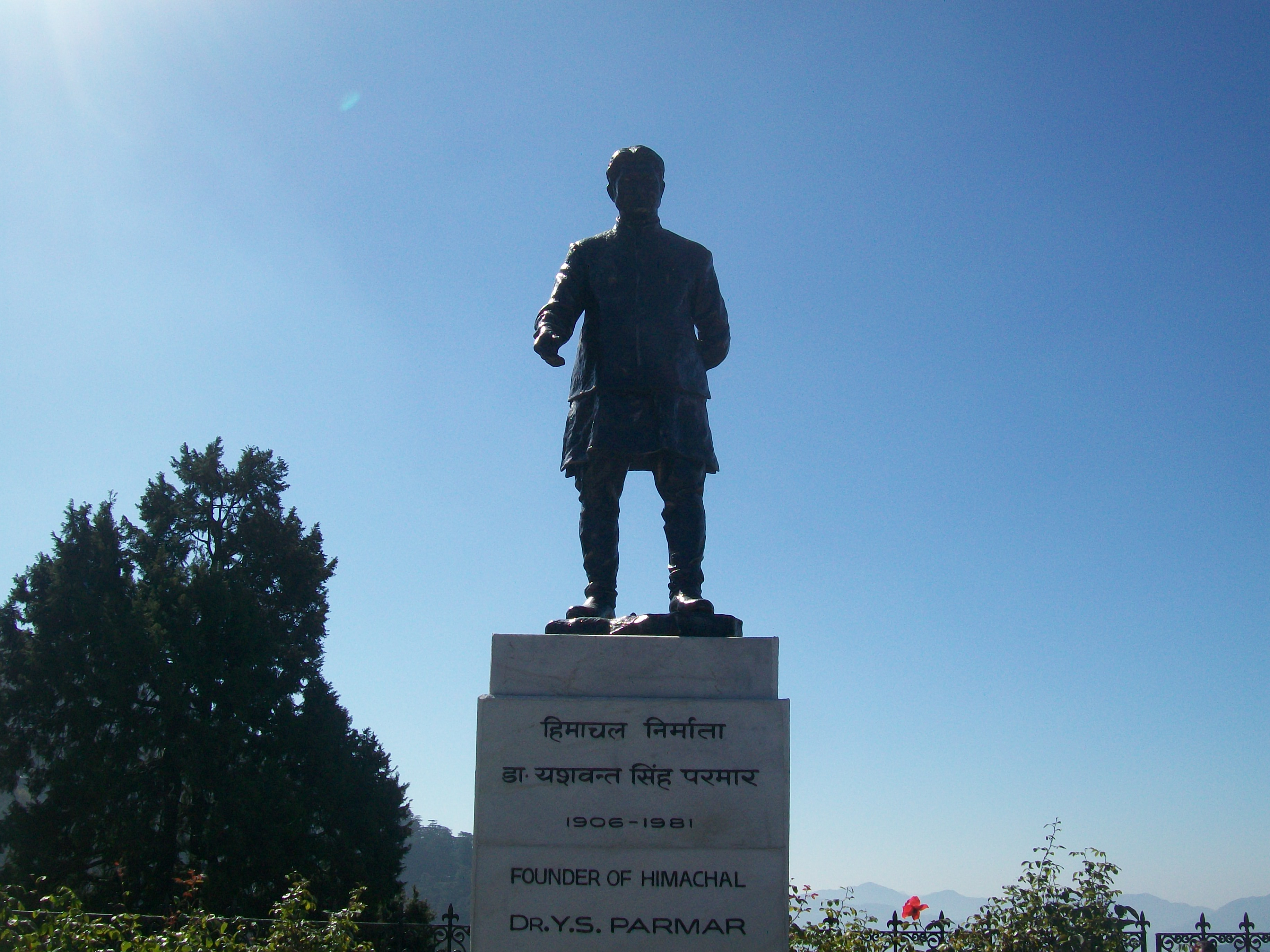 Statue of Yashbant Singh Parmar, (Himachal Nirmata) Simla